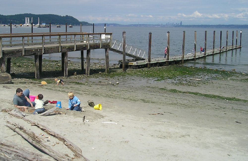 The Manchester waterfront. The public dock and park is in the foreground. The naval refueling pier may be seen further back. Bainbridge Island is in the distant left, and Seattle is far away on the right.